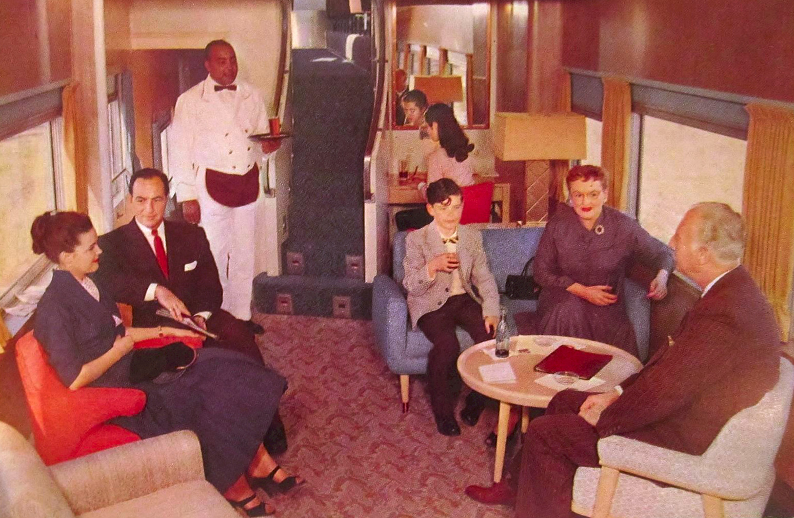 Postcard photo of the lower level of an Astra Dome observation car. The Union Pacific railroad carried these cars on their City of Portland and City of Los Angeles trains. The stairs to the upper level Astra Dome can be seen in the photo.